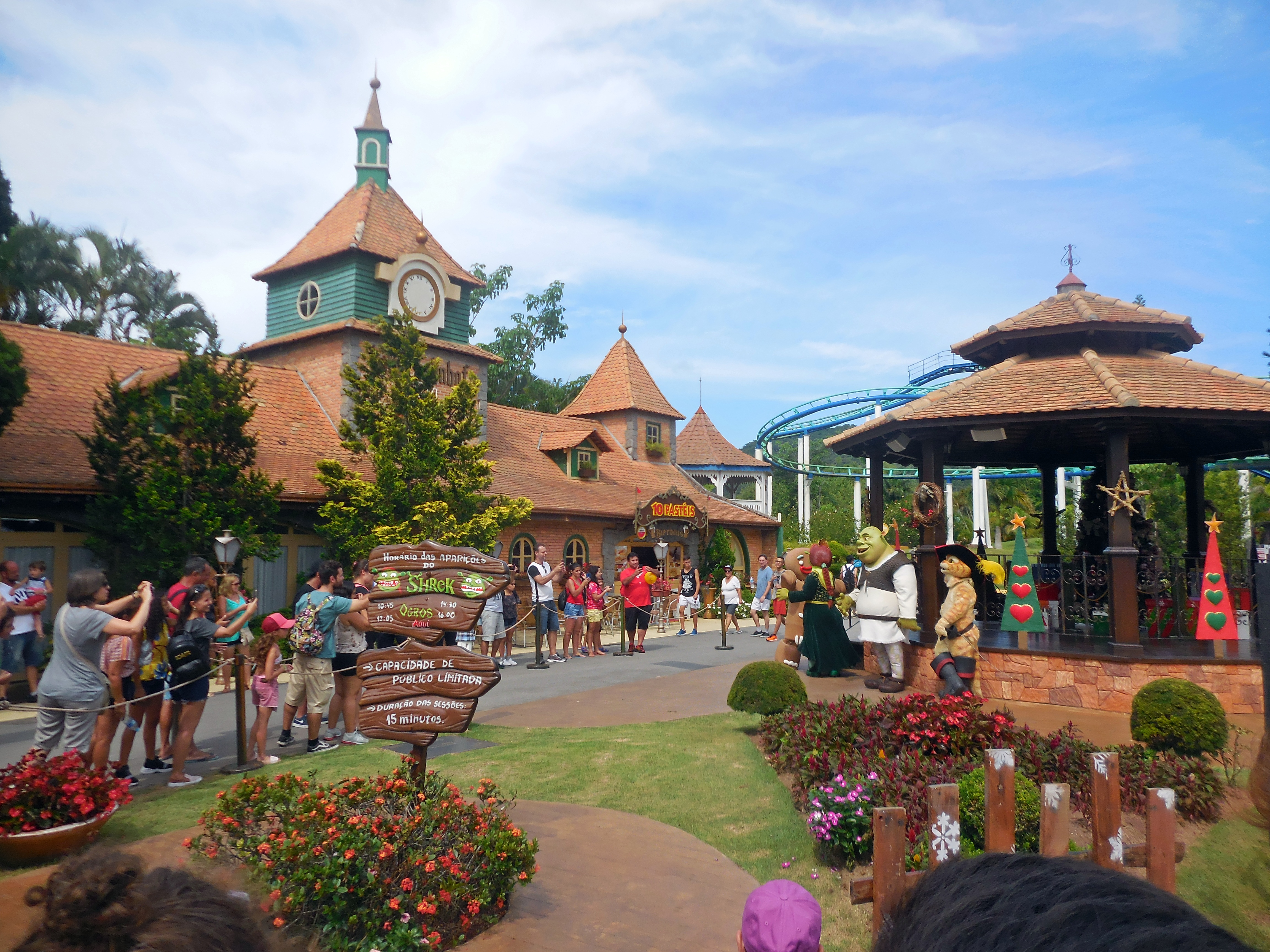 Shrek's Christimas in the Beto Carrero World, in Penha, Santa Catarina, Brazil.